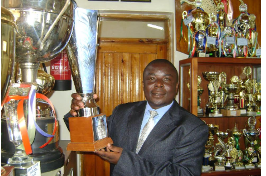 Former School Principal Mr. Edwin Namachanja in the Principal's Office